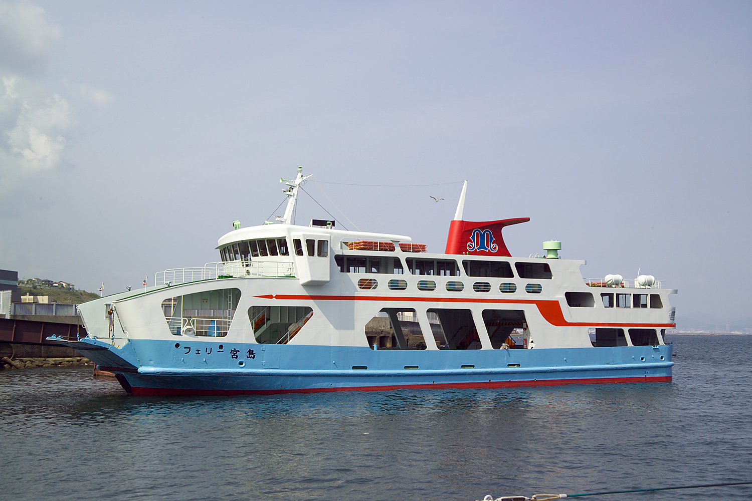 Ferry Miyajima on the Inland Sea, Japan. I took this photo and contribute my rights in it to the public domain; people and organizations retain rights to images in it.